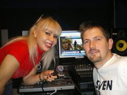 Semra Türel with the Producer Thomas Raber